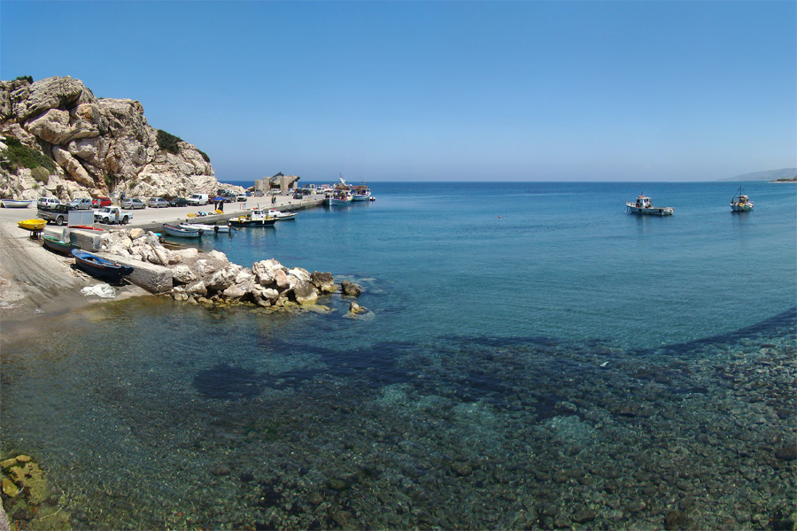 Skala Kamirou, Rhodes, Greece.